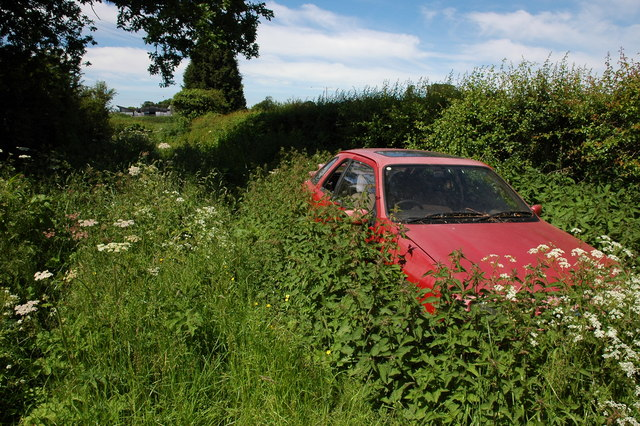 Abandoned car on bridleway This abandoned Ford Sierra is on a bridleway between Thing-hill Court and Monkton Farm.